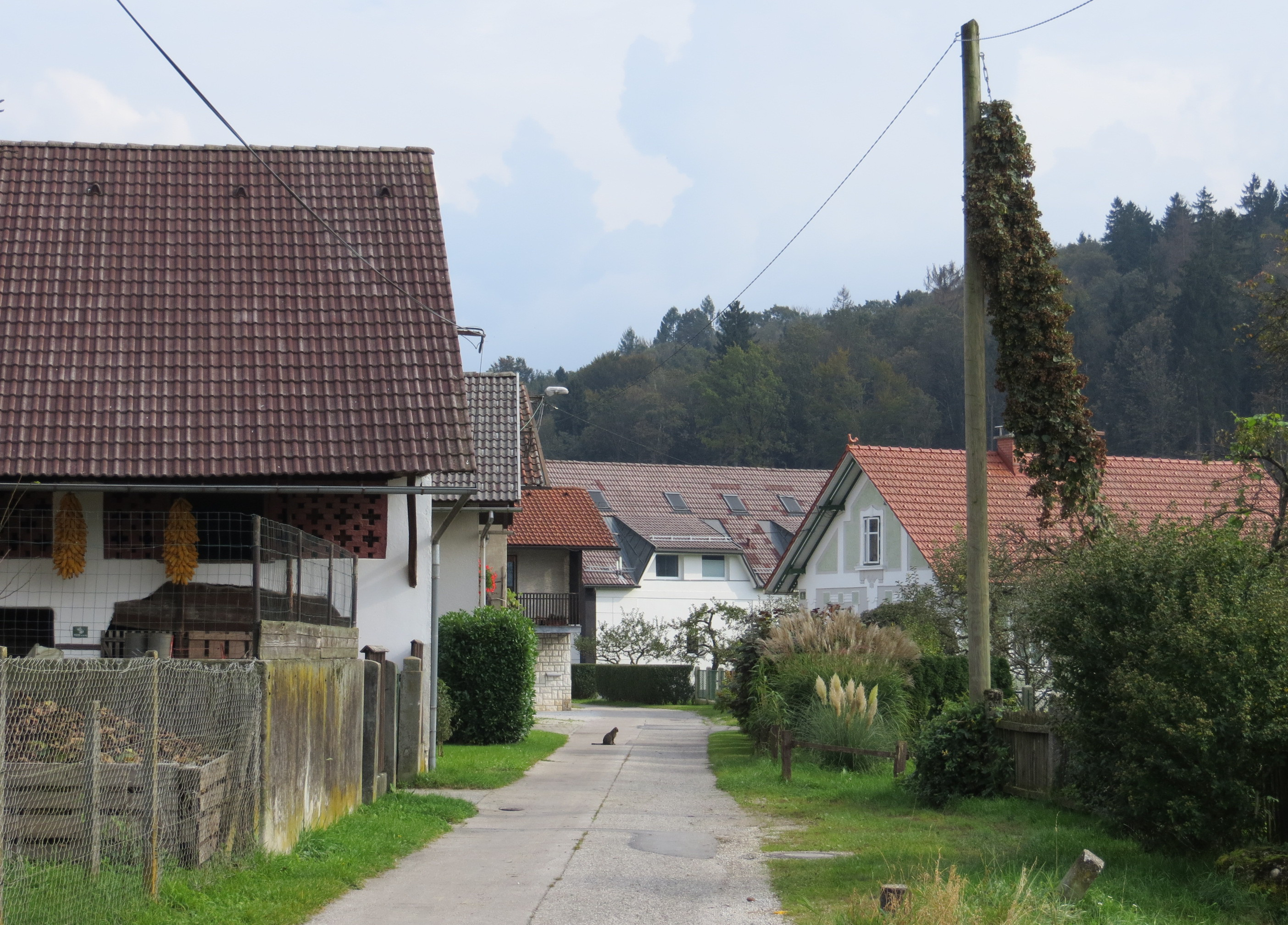 Old core of Zgornja Šiška, City of Ljubljana, Slovenia